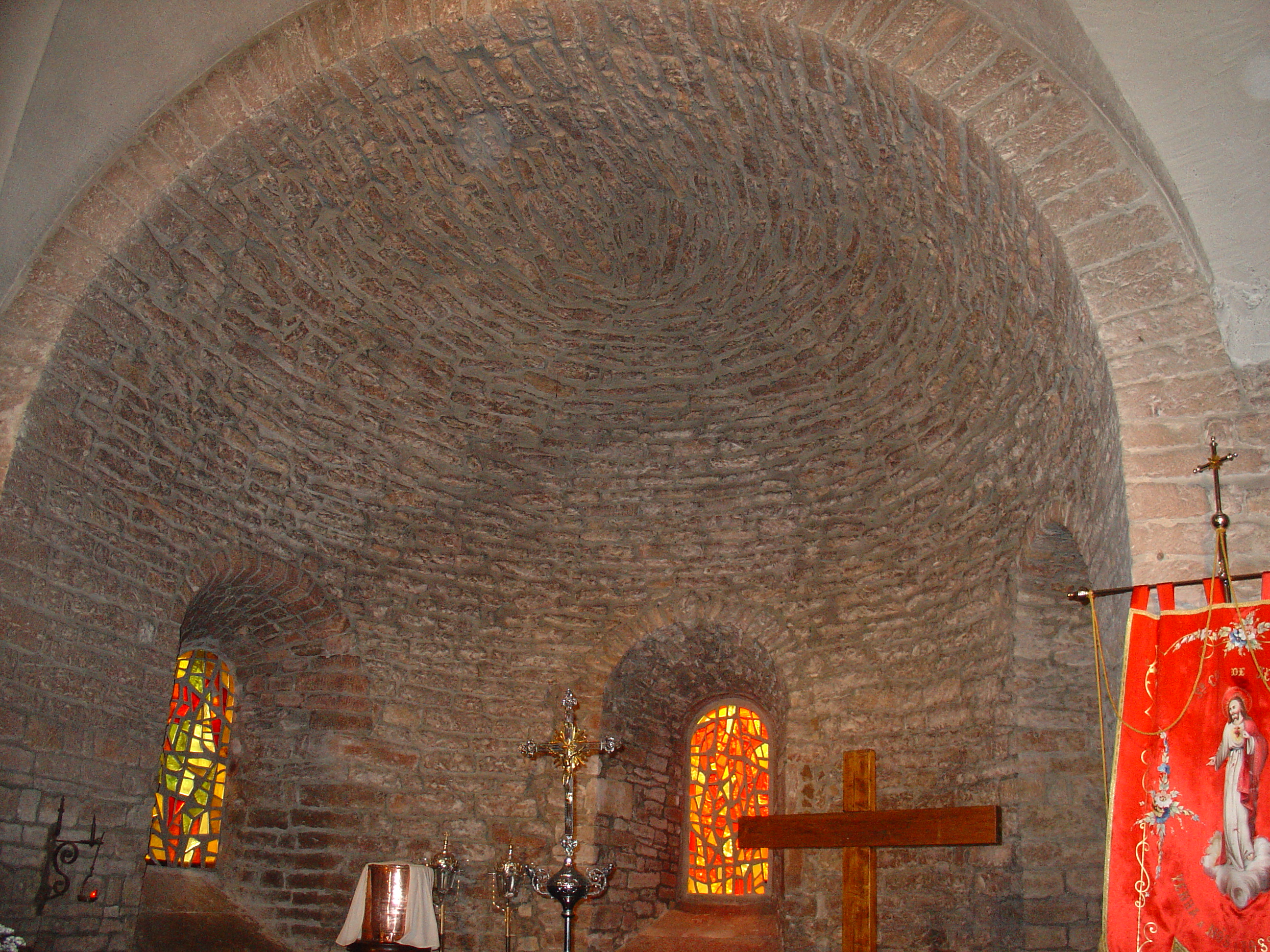 Apse of Charnay-lès-Mâcon'church (Saône et Loire, France) with a vault